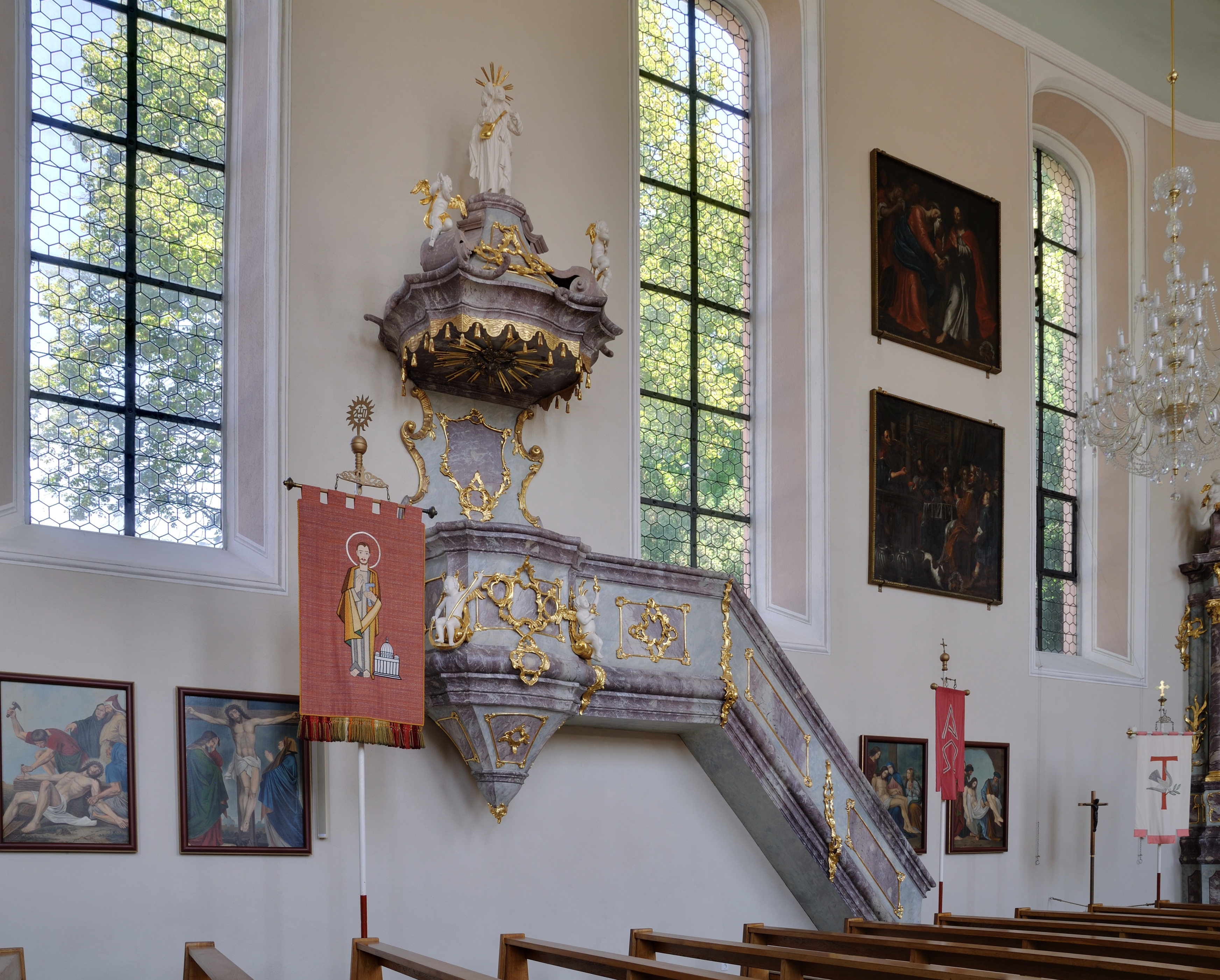 Schliengen: Saint Leodegar Church